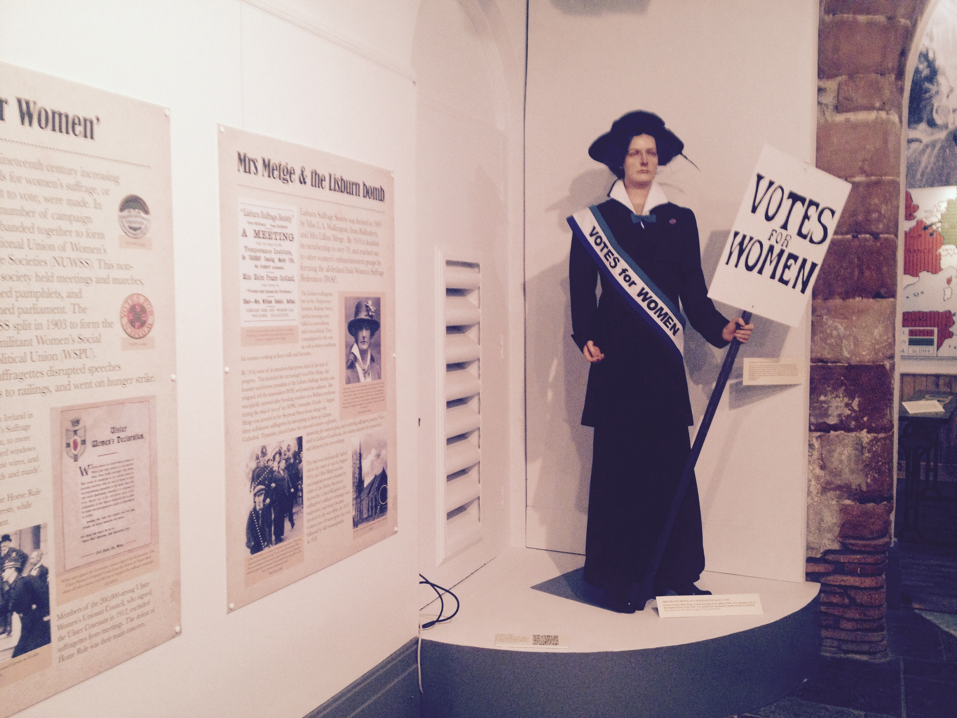 A mannequin of Mrs Lilian Metge, Lisburn Suffragette, in the colours of the WSPUquin of Mrs Lilian Metge, Lisburn Suffragette, in the colours of the WSPU. Mrs Metge joined the WSPU in 1914 and was responsible, allegedly, for the most violent act of the Irish suffrage campaign: the bombing of Lisburn Cathedral.